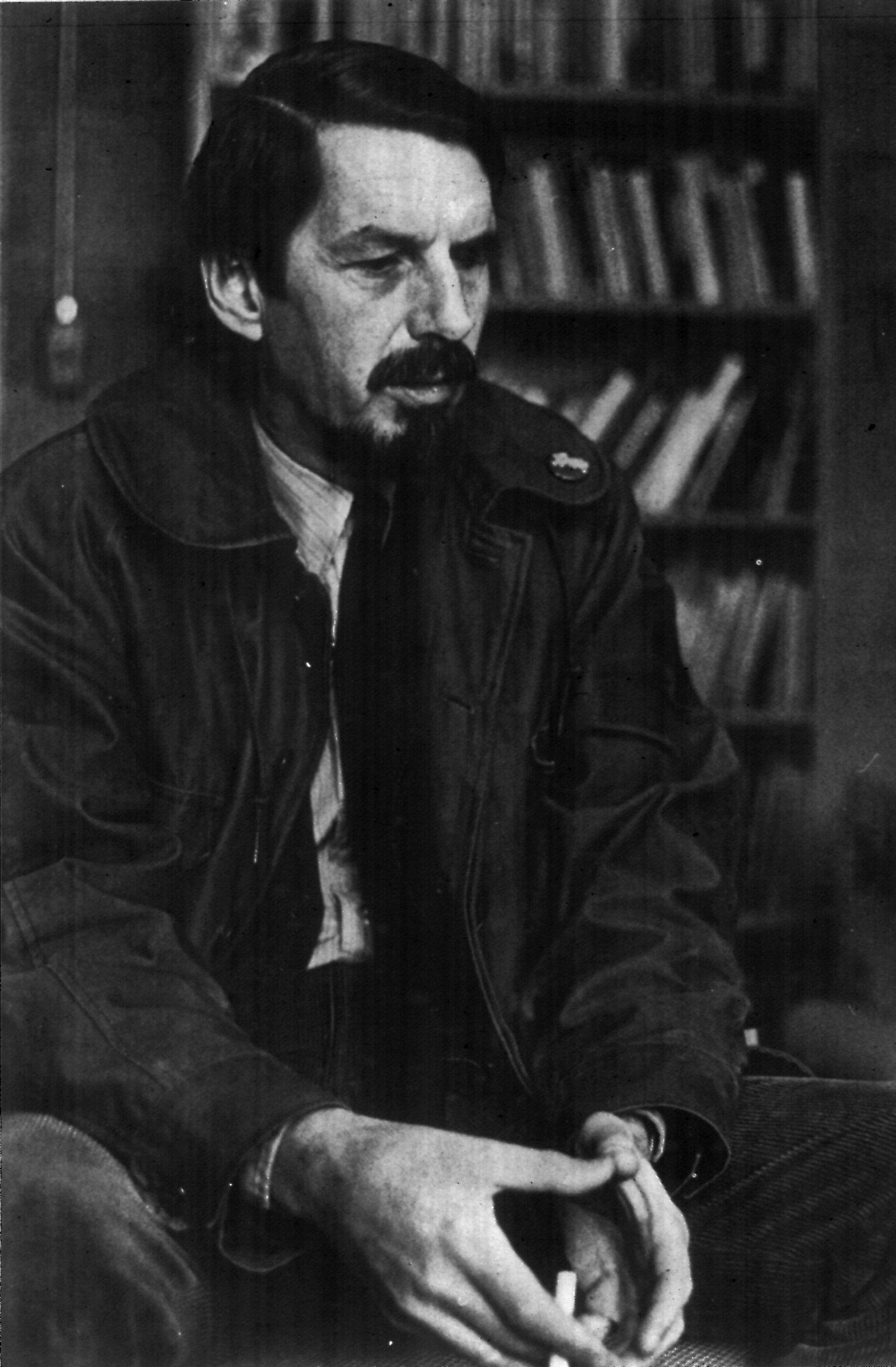 Robert Creeley, from the 1970 Buffalonian (University at Buffalo student yearbook)